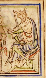 Harold I Harefoot, King of England. (Cambridge University Library, Ee.3.59, fo. 5v)